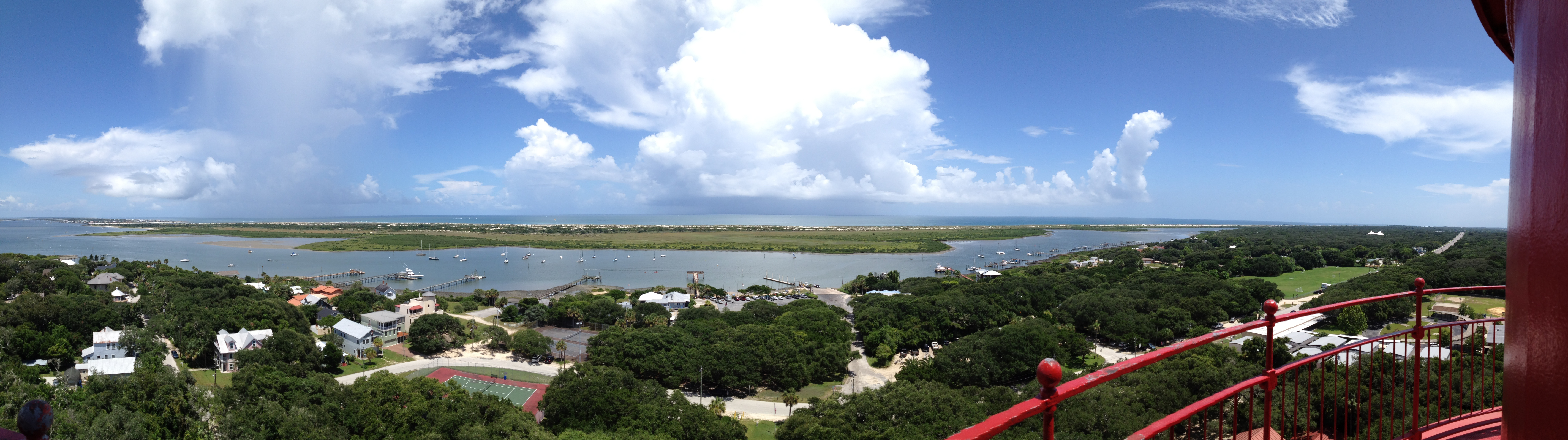 St. Augustine Lighthouse and Keeper